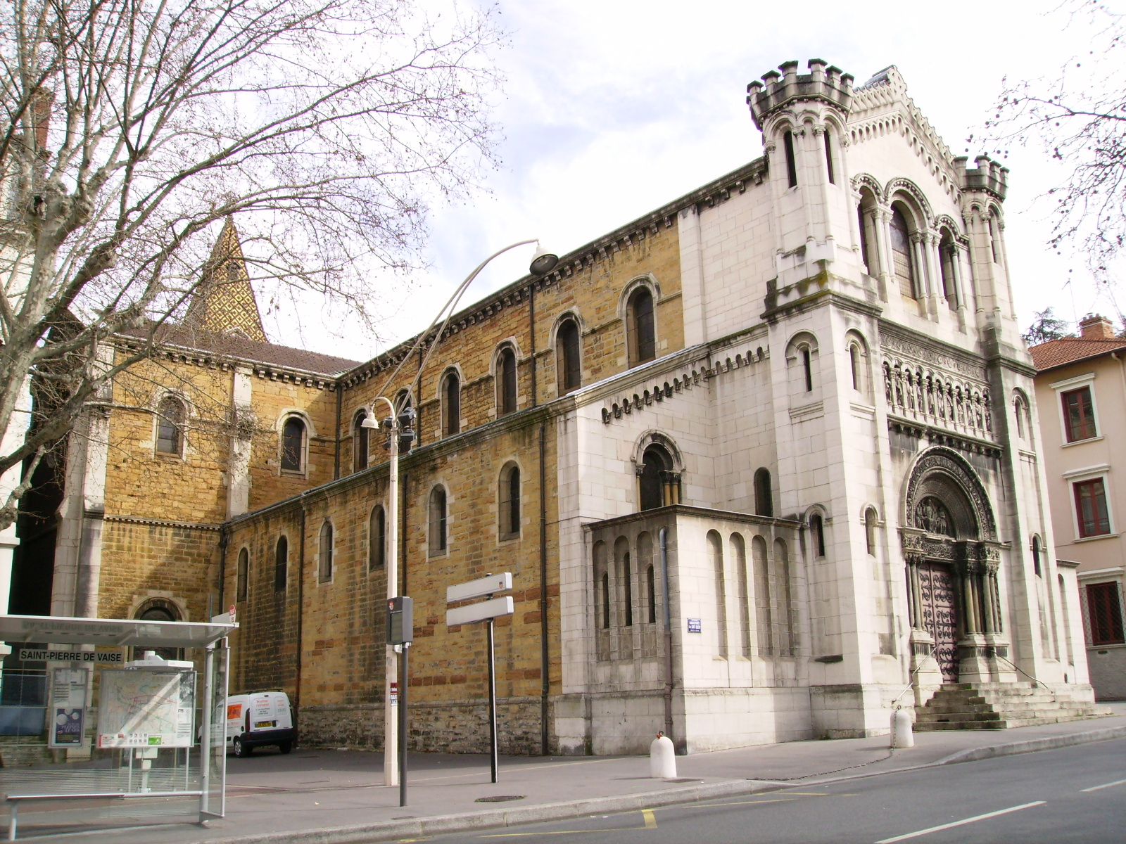 Church Saint Pierre of Vaise in Lyon, seen from the west.